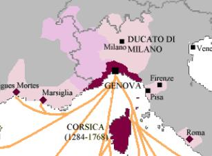 Republic of Genua